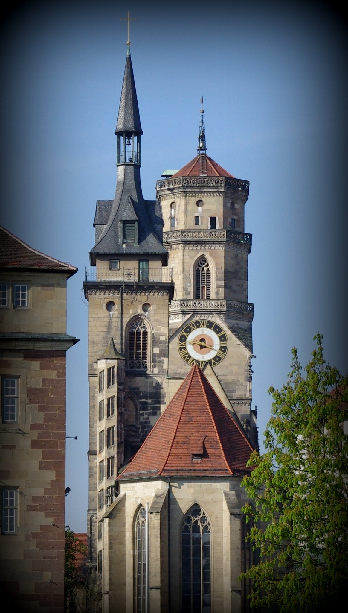 Gothic towers